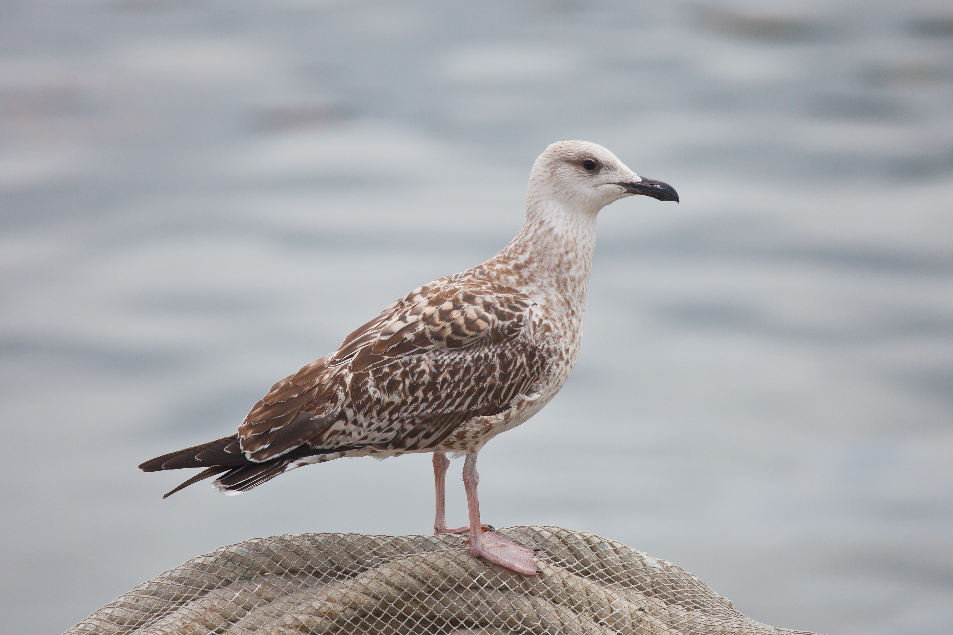 Juvenile of Larus michahellis, Portosín, Porto do Son, Galicia (Spain)